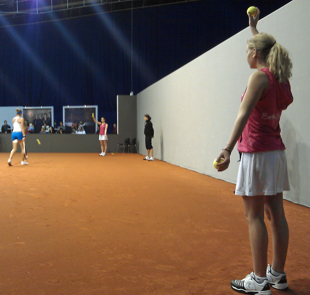 Ball girl in Stuttgart, Germany at the FedCup